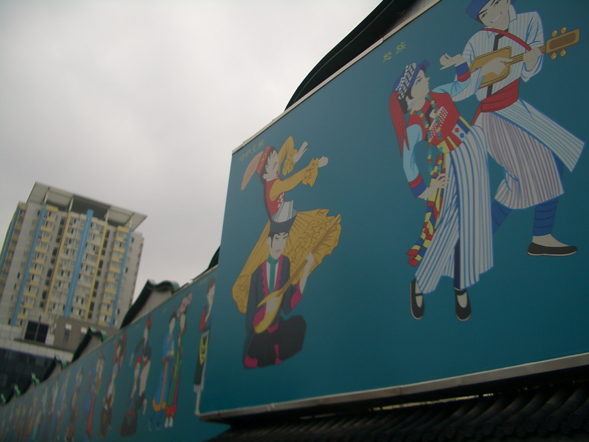 In Beijing Niu Jie (Cow Street), across the street from the Niujie Mosque. An entire block - probably, a construction site - is fenced with a concrete wall, decorated with a block-long poster wrapping around the block and depicting all 56 "recognized" ethnic groups of China (including Han) forming "The great united family of peoples" (民族团结大家庭). The figures are arranged mostly in the Pinyin alphabetic order from right to left. The section in the photo depicts Kazakh and Nu people